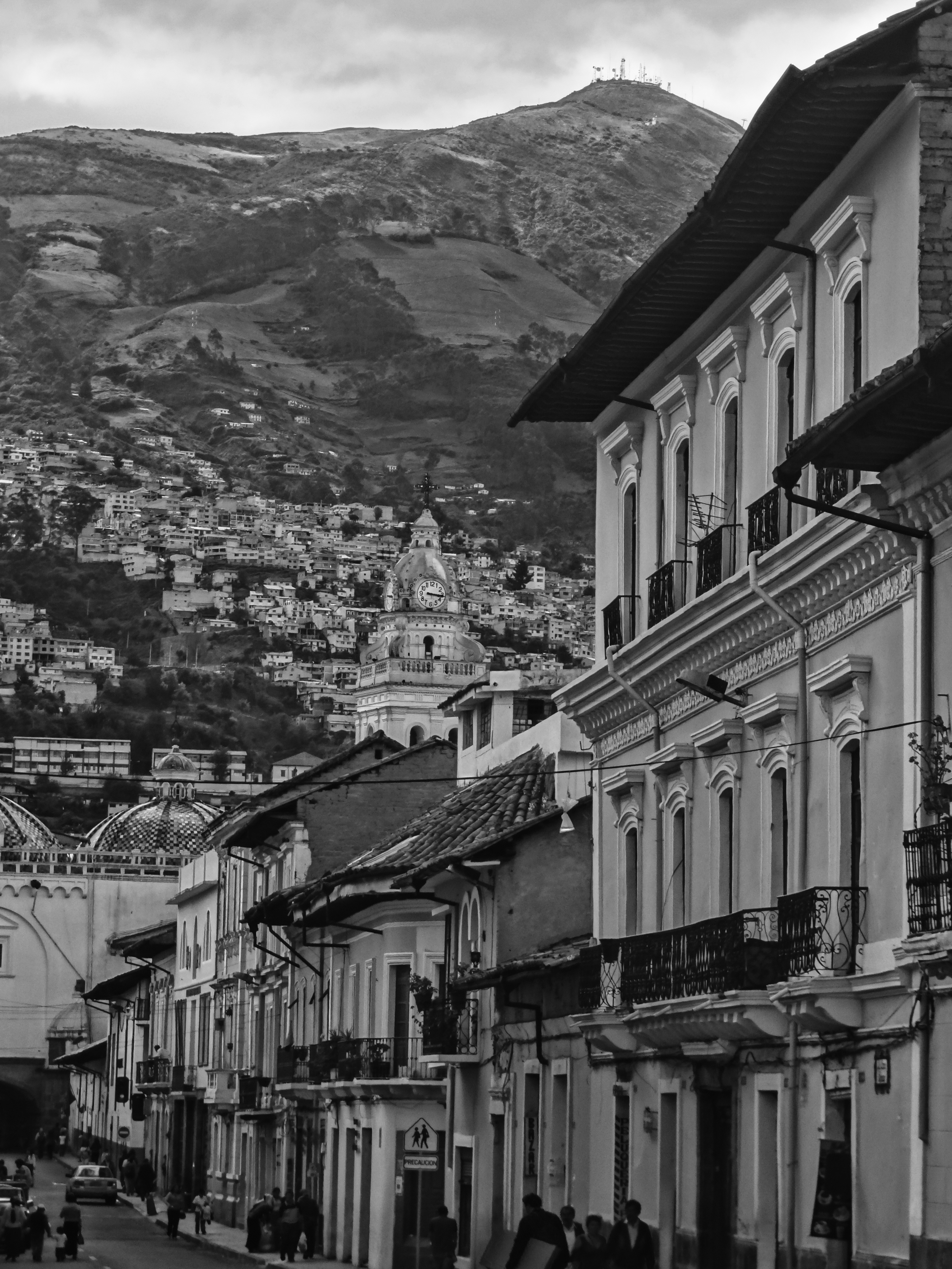 Calle Rocafuerte, Quito in the Historic Center of Quito with Pichincha and Santo Domingo Church in the distance. Pichincha is an active stratovolcano and the mountain's two highest peaks are the Guagua (4,784 metres (15,696 ft)), which means "child" in Quechua and the Rucu (4,698 metres (15,413 ft)), which means "old person". The active caldera is in the Guagua, on the western side of the mountain. (Historic Center of Quito - World Heritage Site by UNESCO) El Centro Histórico de Quito Photography by David Adam Kess